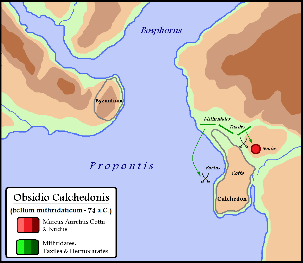 Siege of Calchedon during third Mithridatic war (74 BC)